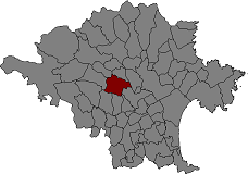 Location of Llers in Alt Empordà